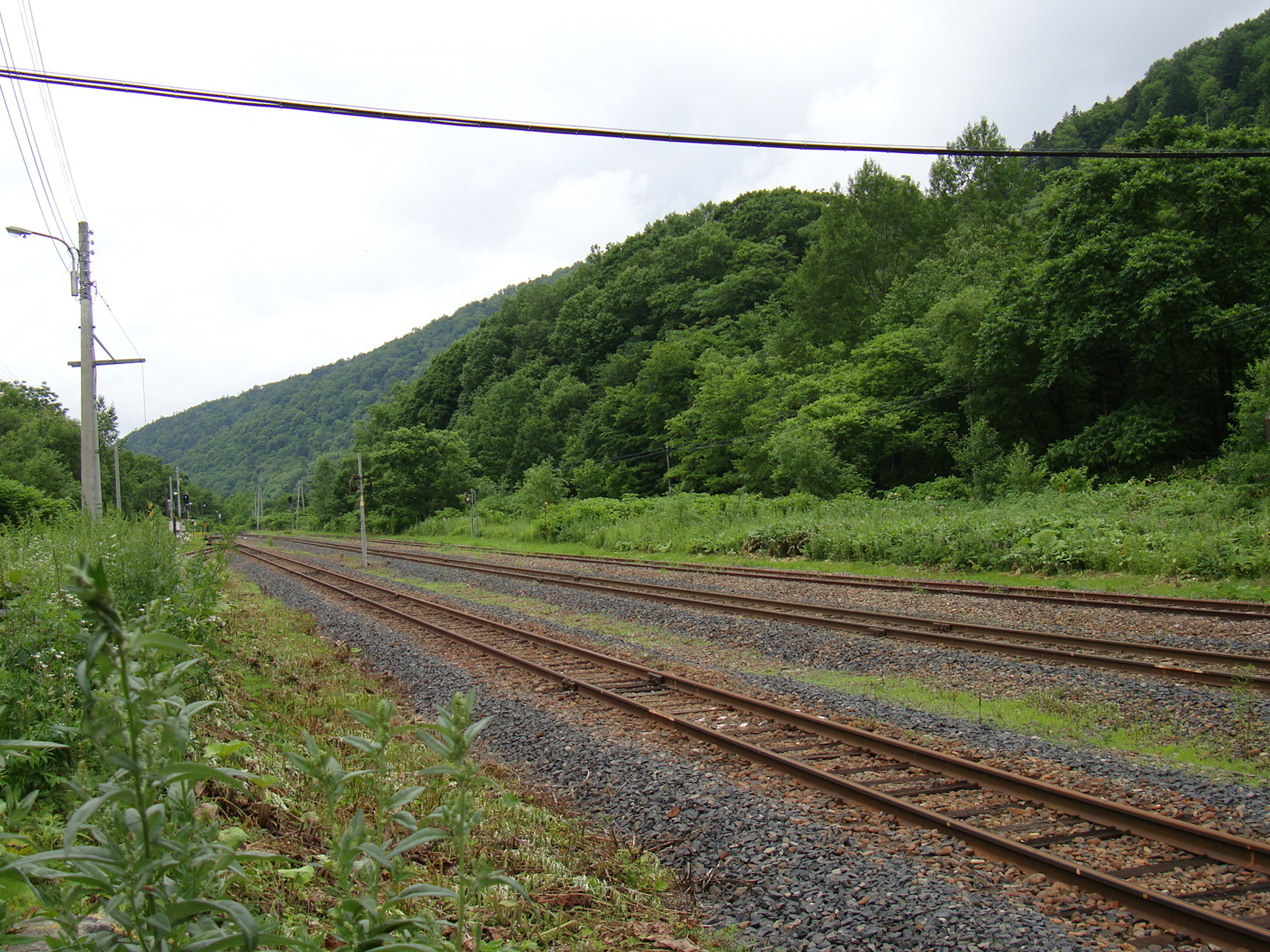 Nakakoshi Signal Base